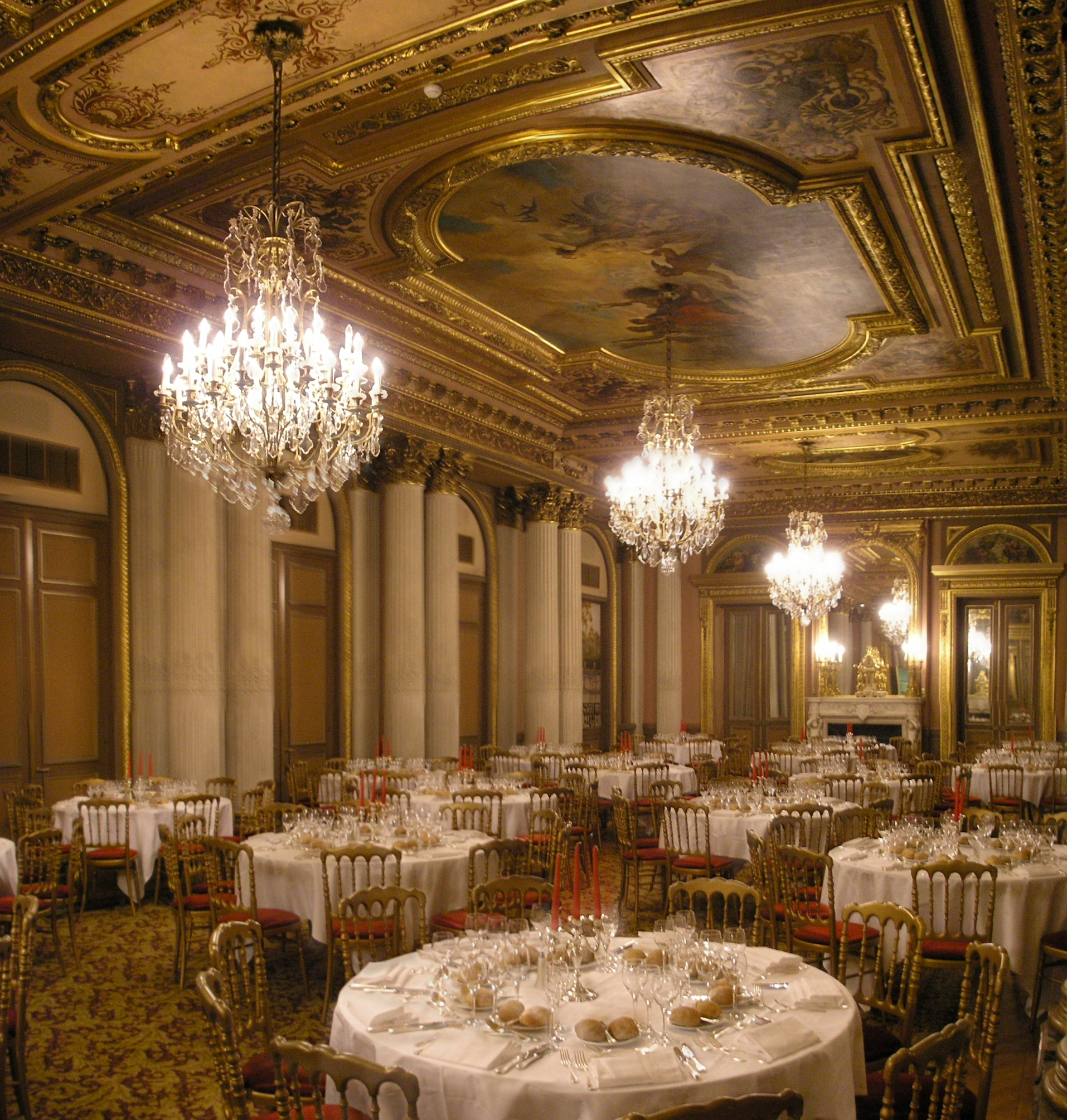 The Salon Napoleon in the Westin Paris Hotel at rue de Castiglione.